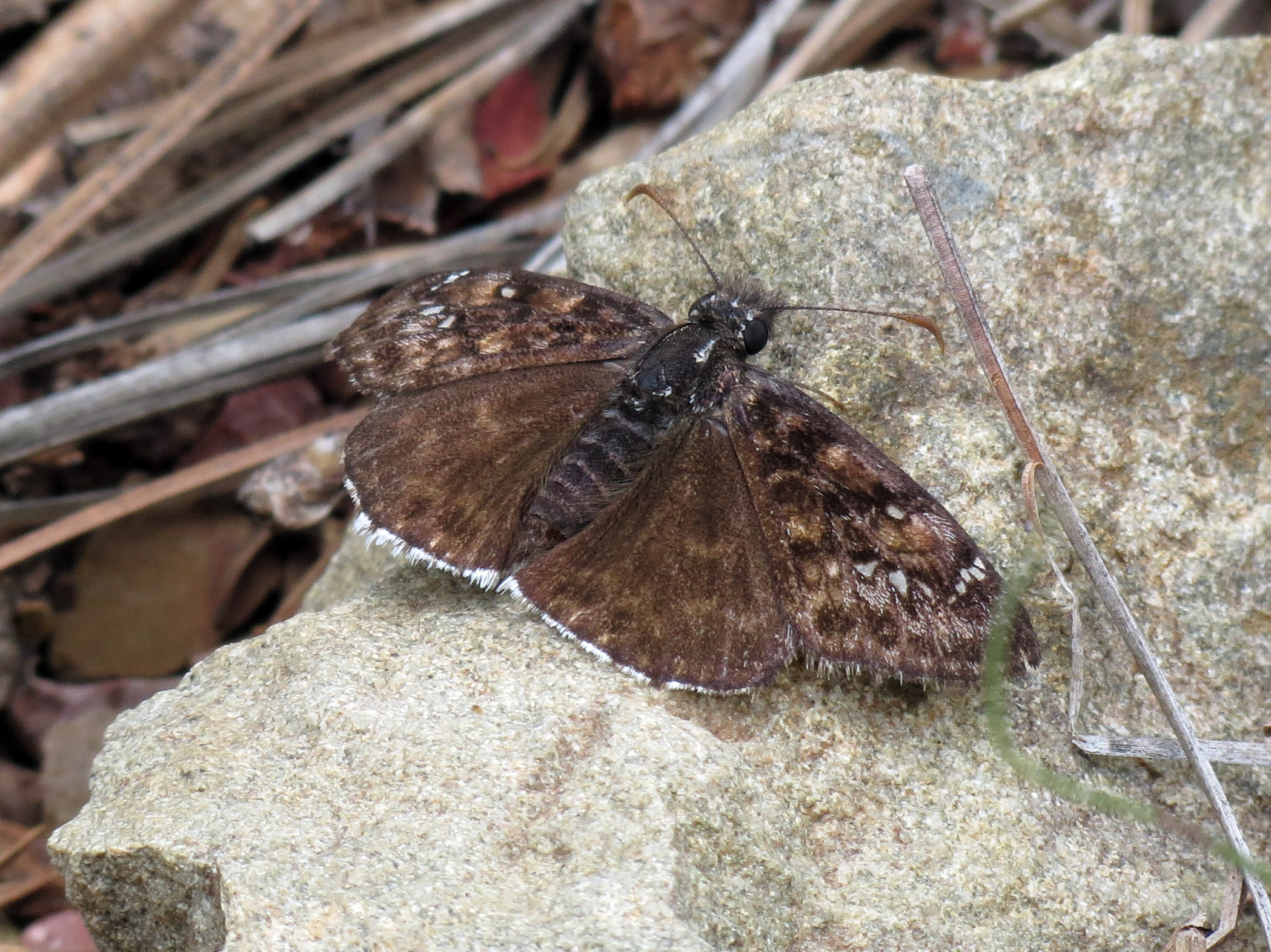 Erynnis sp. (one of: juvenalis, scudderi, pacuvius, tristis), Chiricahua National Monument, Cochise County, Arizona, USA.